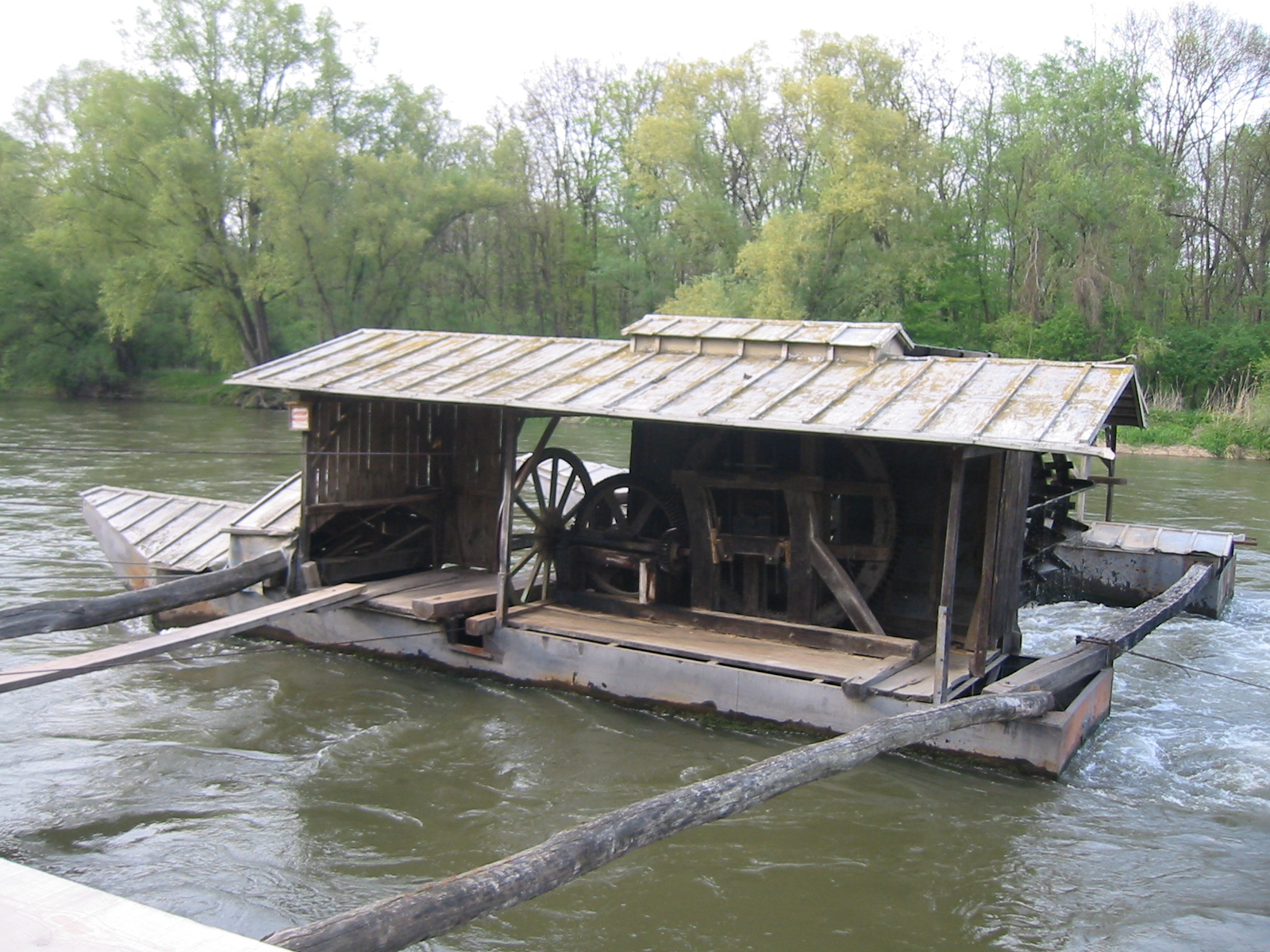 Floating mill on river Mura, Slovenia